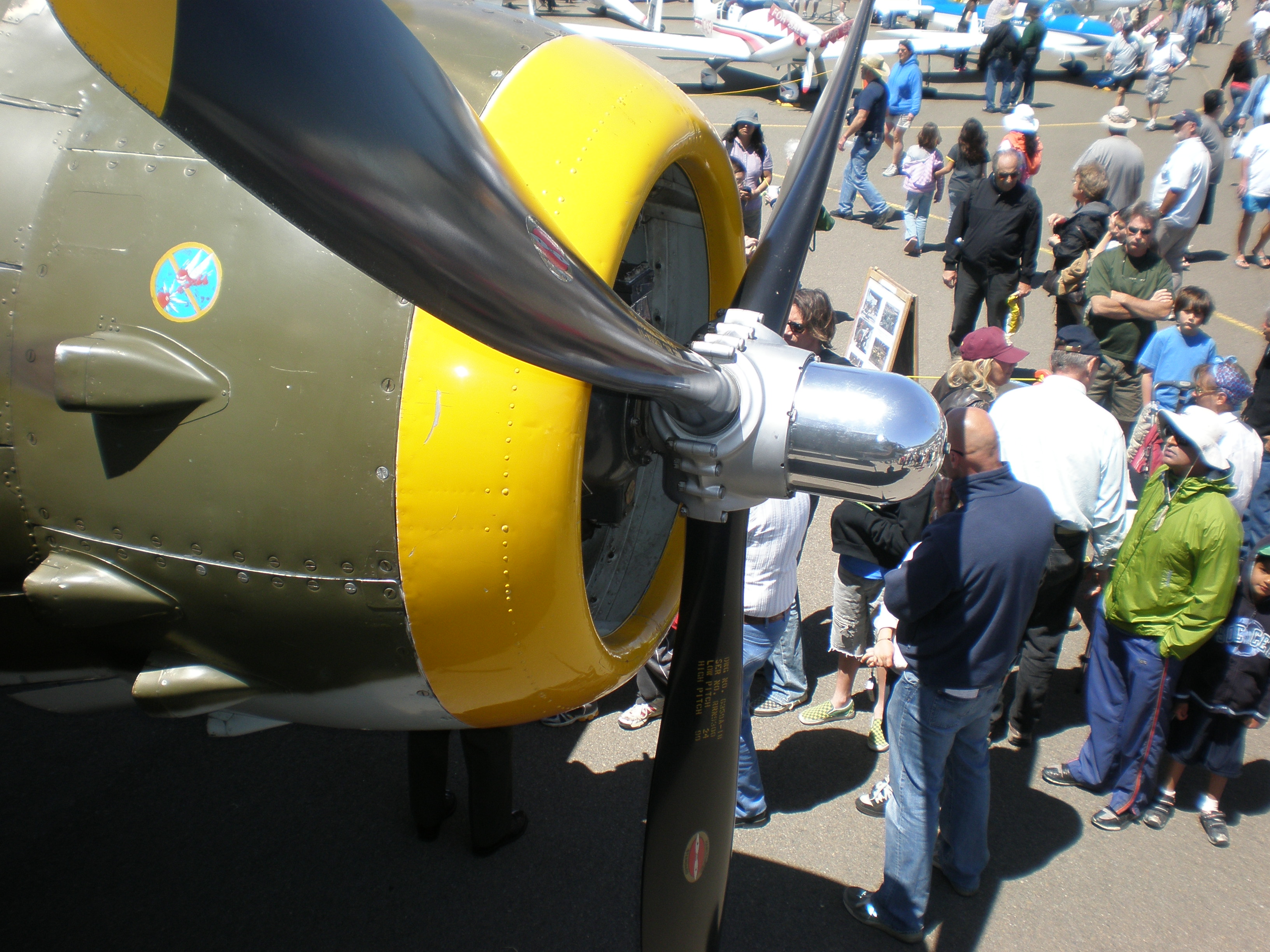 The port engine of the B-25J "Heavenly Body", which was on display and available for tour at the Pacific Coast Dream Machines vehicle show at the Half Moon Bay Airport in Half Moon Bay, California, as seen from the cockpit.